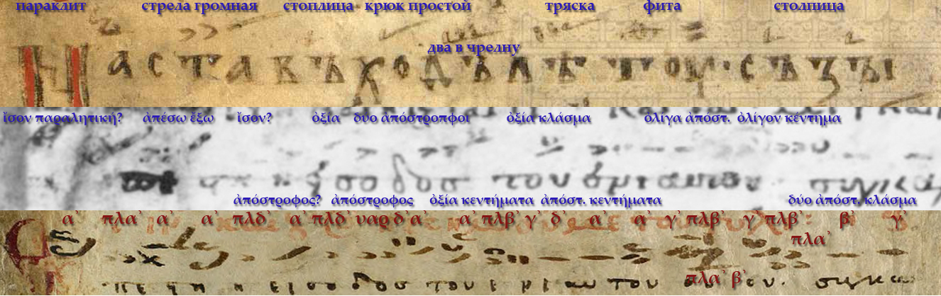 The first sticheron of the menaion наста въходъ in glas 1 (ἐπέστη ἡ εἴσοδος echos protos) in three sticheraria with znamennaya notation (RUS-Mda fond 381 no.152, f.1v), Coislin notation (ET-MSsc Sin. gr. 1217, f.2r) and Middle Byzantine round notation (DK-Kk NkS4960, f.1r).